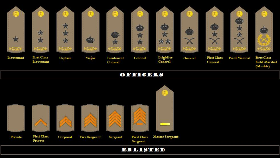 Saudi Arabian military ranks.